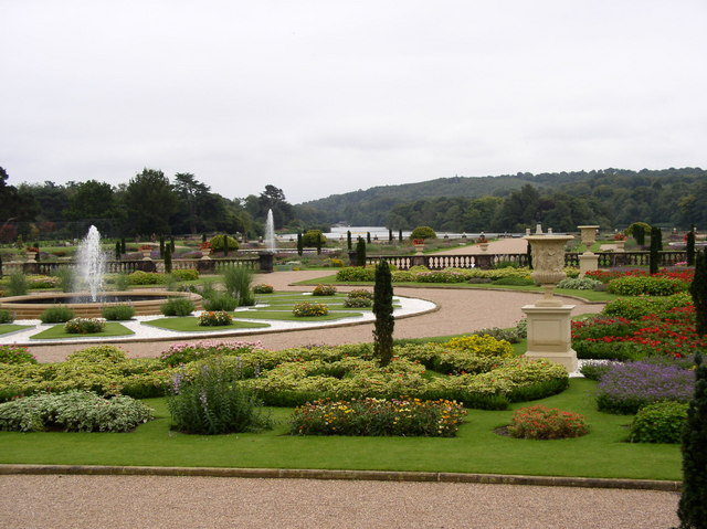 Trentham Gardens Original description: Trentham Gardens Beautiful Italian Gardens at Trentham